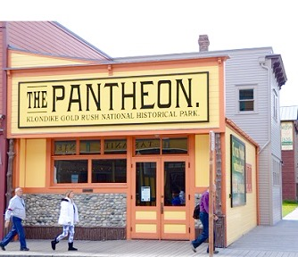 The Pantheon Saloon at Klondike Gold Rush National Historic Site in Skagway Alasks now used for Junior Rangers